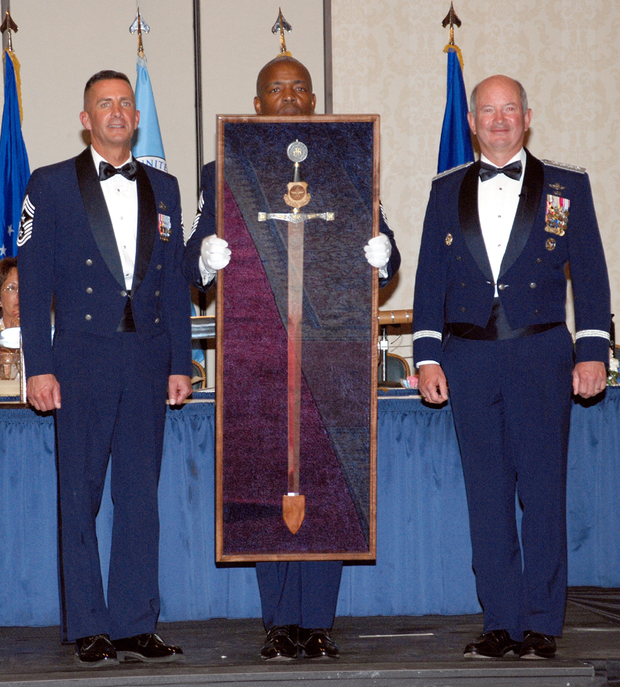 Left to right, Chief Master Sergeant Joe Barron, Air Mobility Command command chief and sergeant major at the ceremony, Chief Master Sergeant Brye McMillon, 18th Air Force command chief and sergeant at arms at the ceremony, and General Duncan J. McNabb, AMC commander, with General McNabb’s personal sword presented to him at the Order of the Sword Ceremony at Scott AFB, Illinois, September 6. Enlisted Airmen from AMC bases, including McGuire, attended the event to present General McNabb with the Order of the Sword; the highest honor and tribute non-commissioned officers can bestow upon an individual.